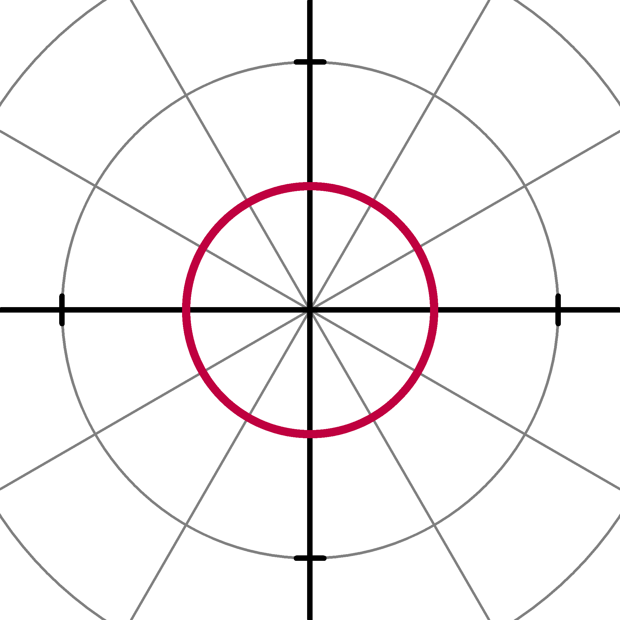 Summary A polar rose with equation r=2sin(4θ) Category:Images of curves